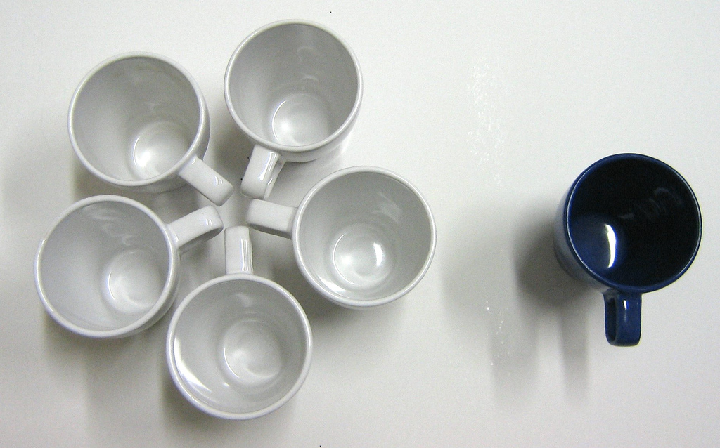 Social exclusion, Discrimination